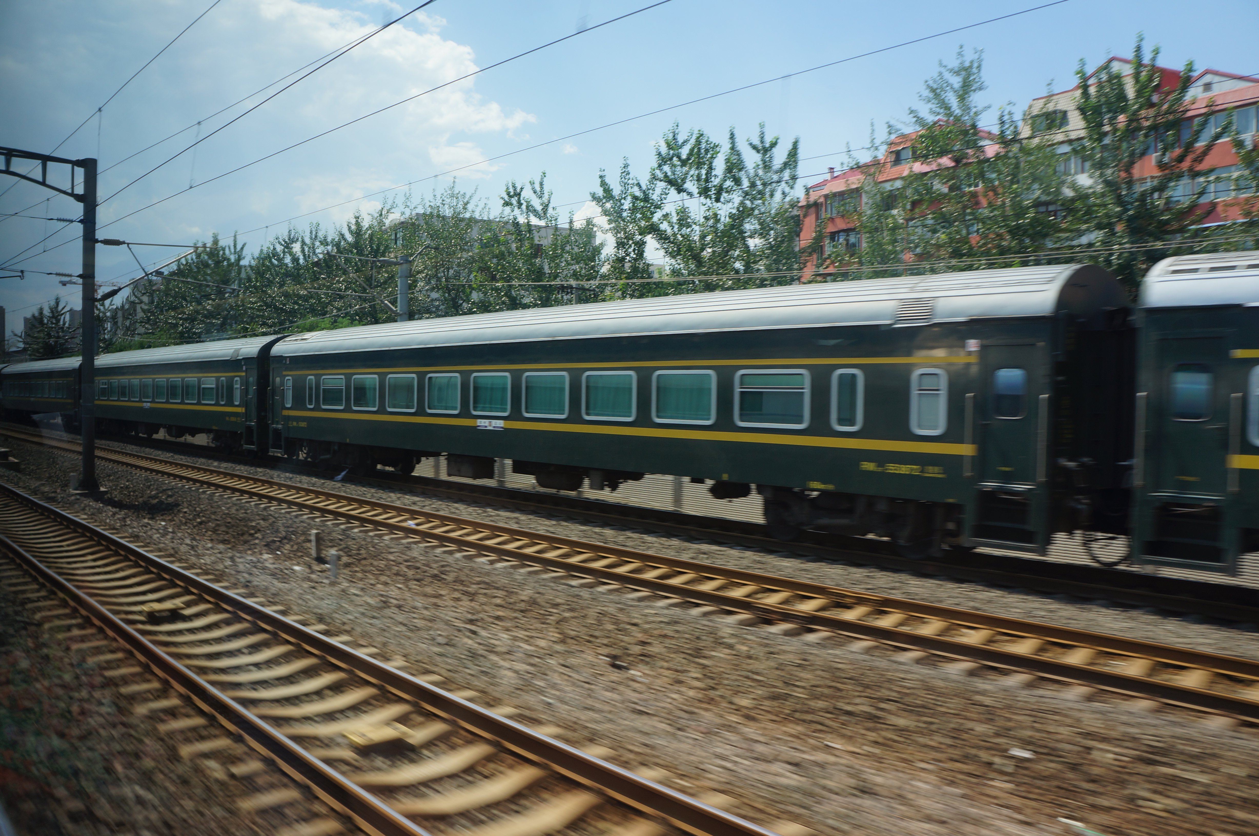 201606 Coaches of T92 near Beijingnan Station